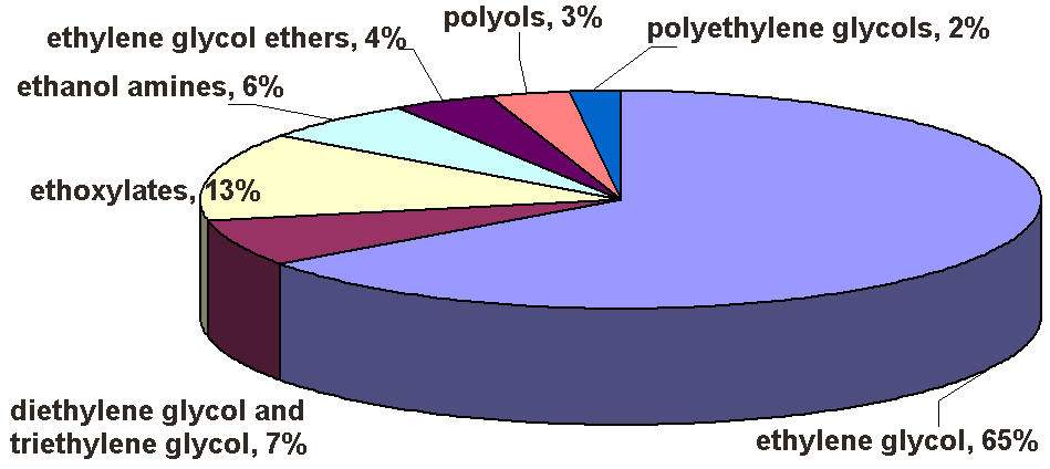 Ethylene Oxide (EO) Uses and Market Data